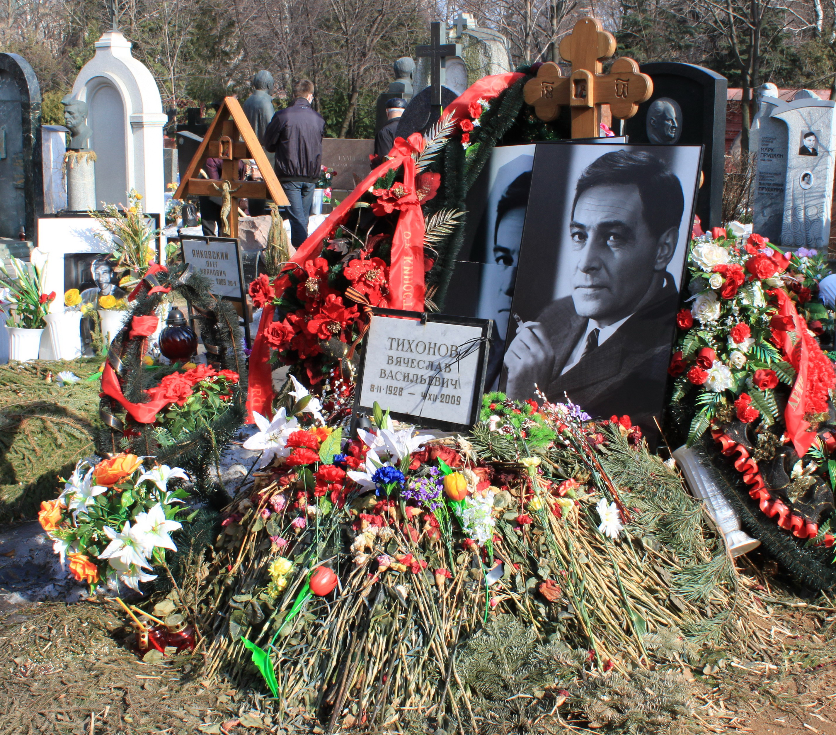 Vyacheslav Tikhonov's grave (a popular actor from Russia).